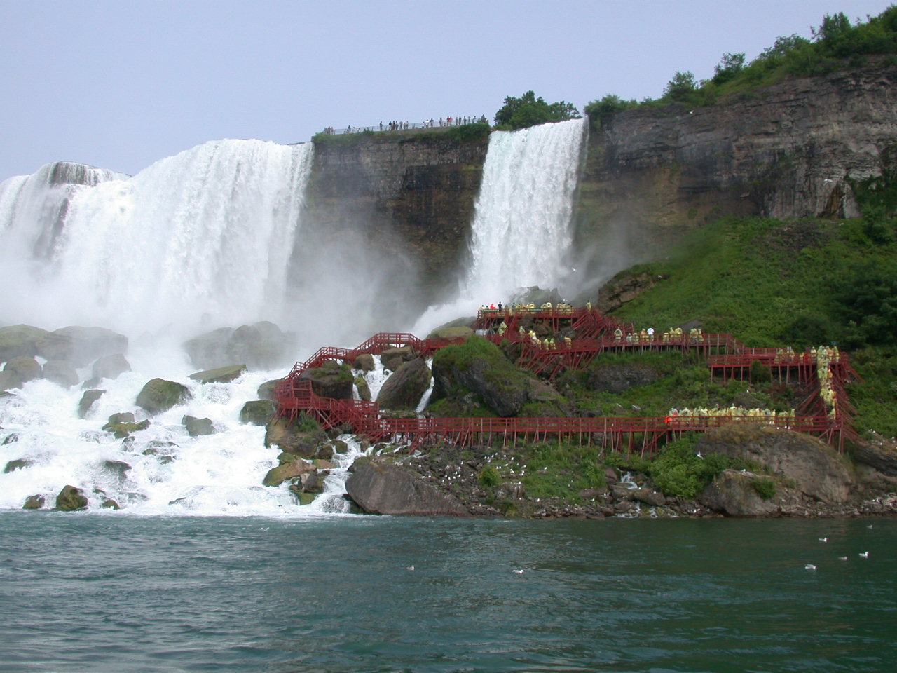 Niagara Falls. Walkway on the US side.